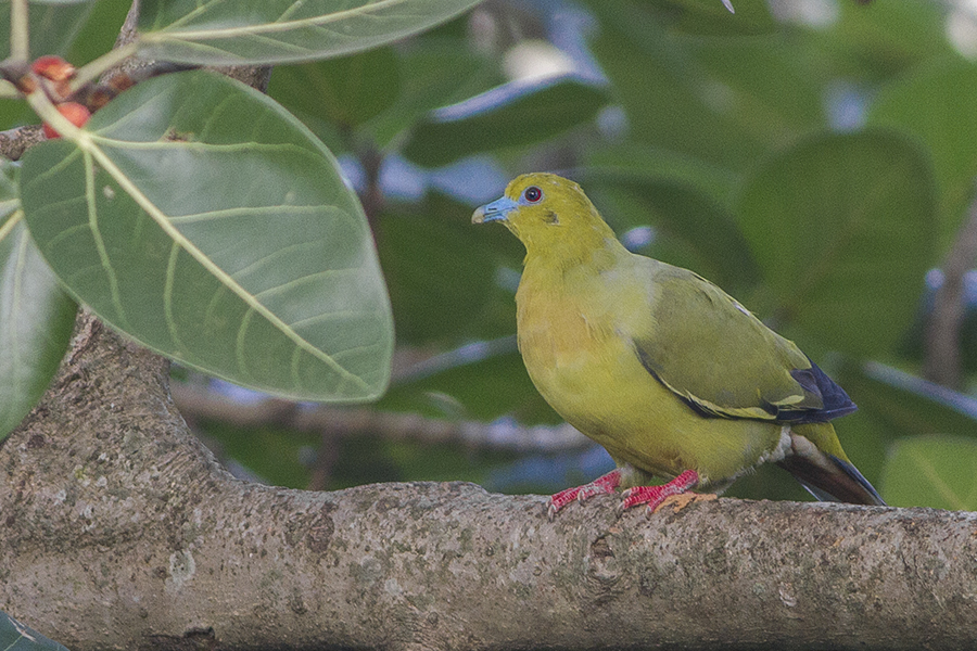 The specie Pin-tailed Green Pigeon had been photographed at Ghatgarh, Nainital, Uttarakhand, India on 08.10.2014. during the birding tour of GoingWild.